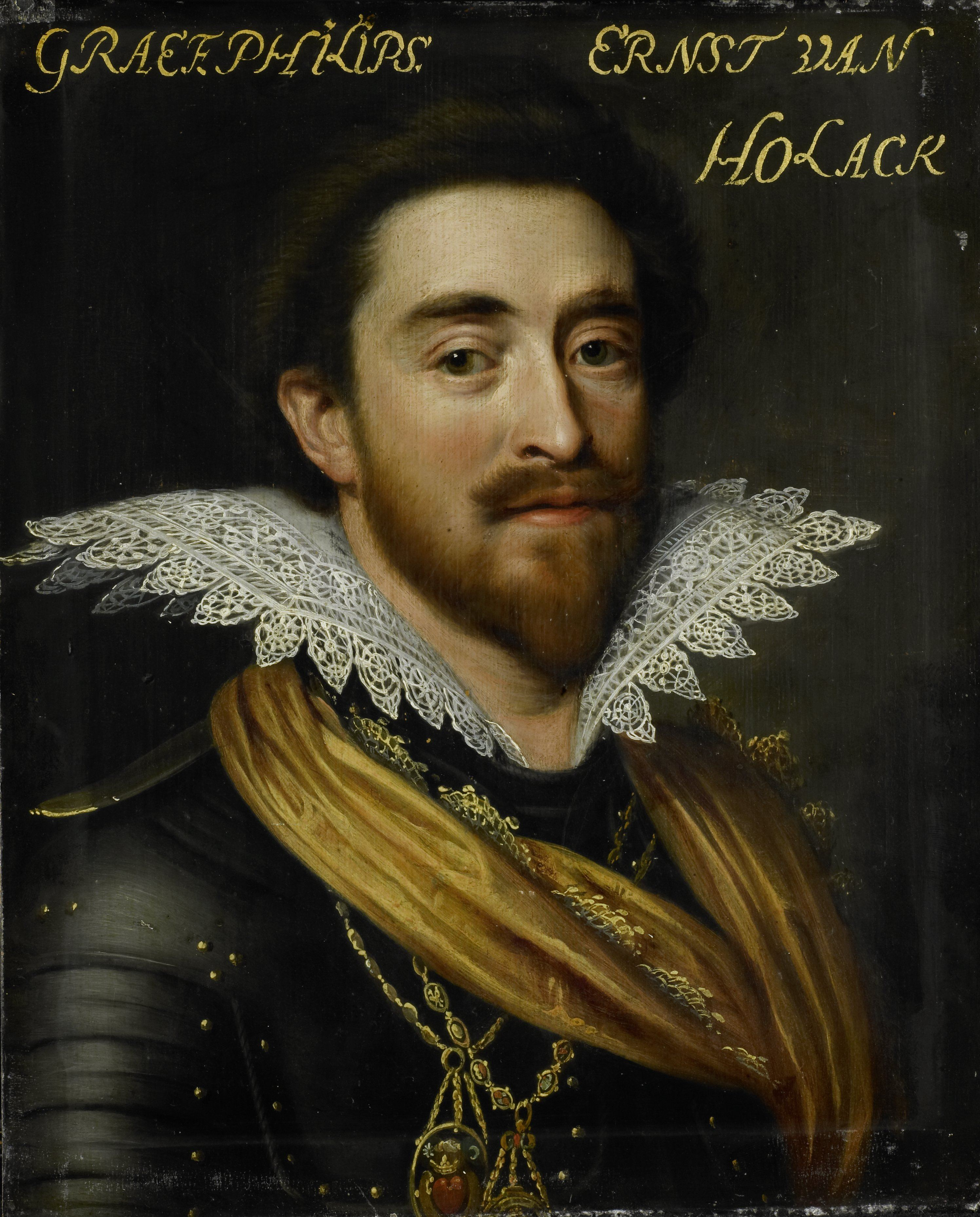 Philip Ernest, Count of Hohenlohe-Langenburg (1584–1628). Oil on panel, 29.7 by 24.1 cm, Rijksmuseum Amsterdam.